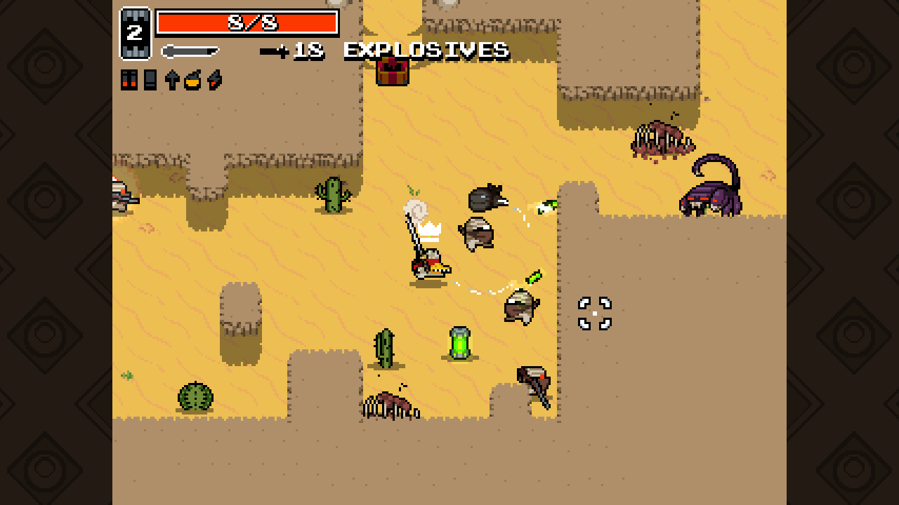 Screenshot from 2015 video game Nuclear Throne